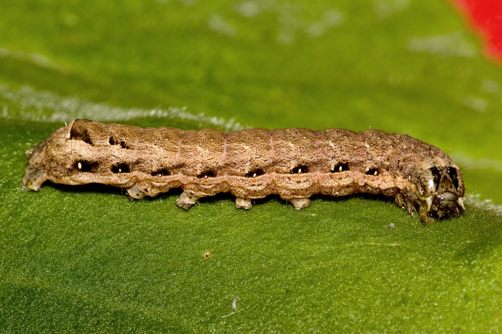 Lesser Yellow Underwing, Noctua comes (Hübner, 1813), Many thanks to Thomas Fähnrich from for determination!